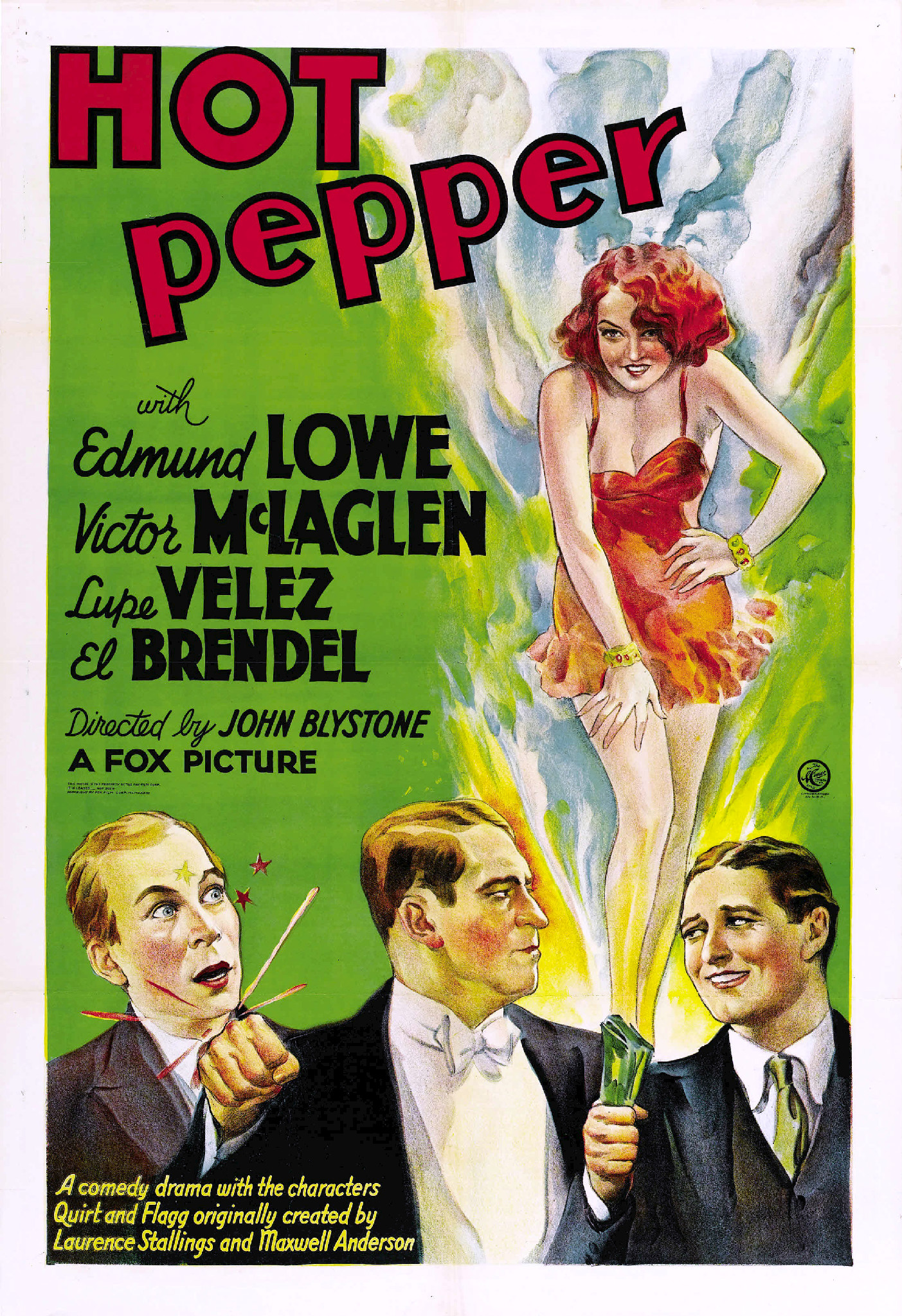 Poster for the 1933 film Hot Pepper. There are no copyright works on the poster. At right is a logo for the Miner Litho Co., NY--they printed the poster.